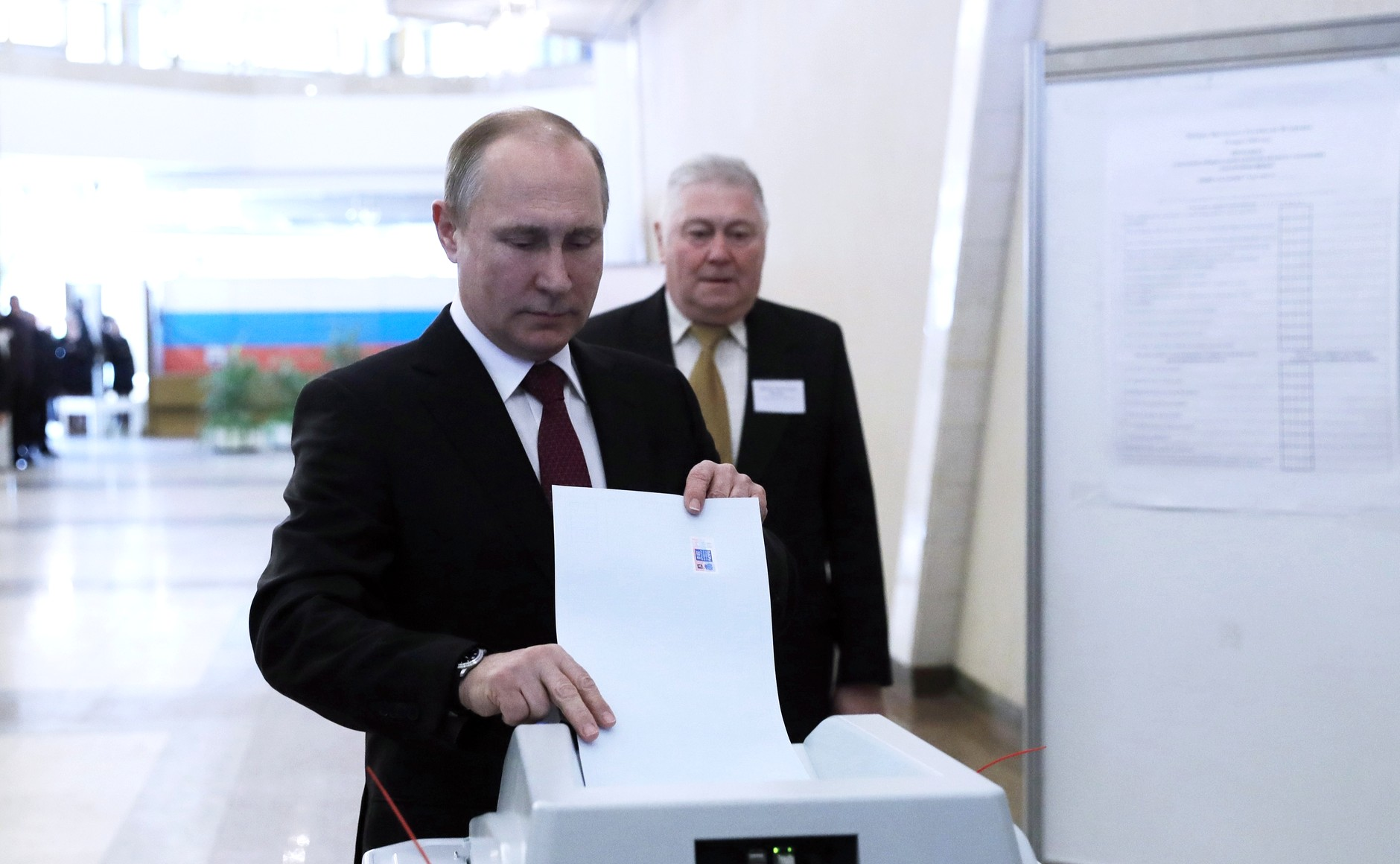 Vladimir Putin voted in the presidential election in Russia in 2018